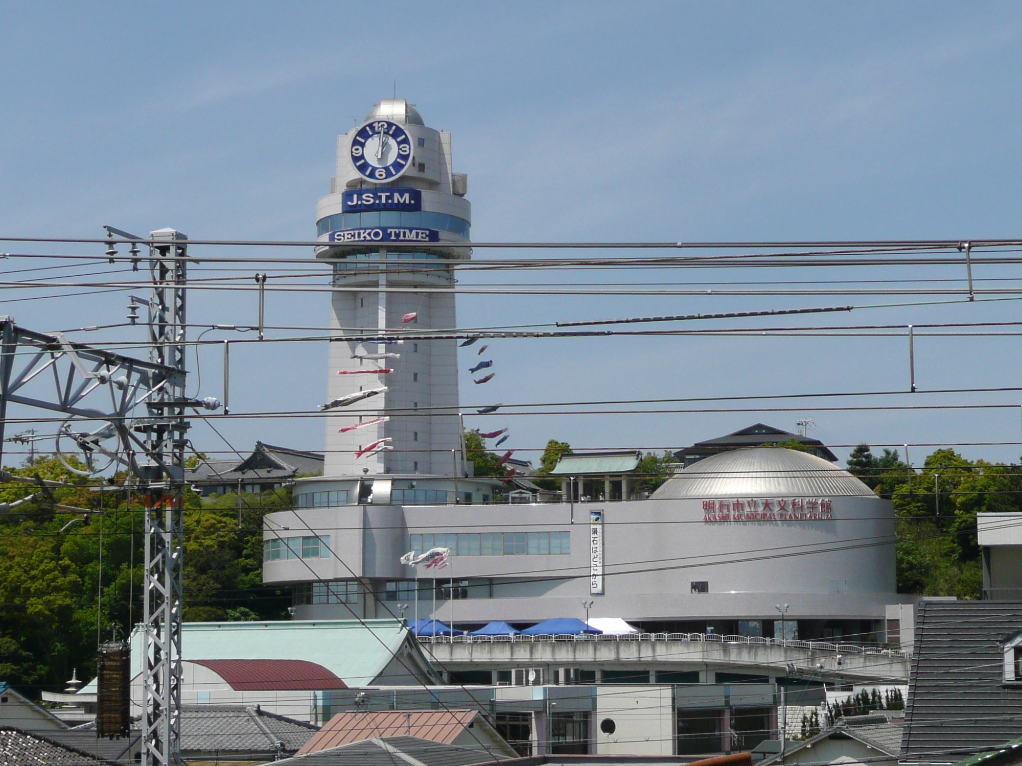 The view of Akashi Minicipal Planetarium from Hitomarumae Station platform.